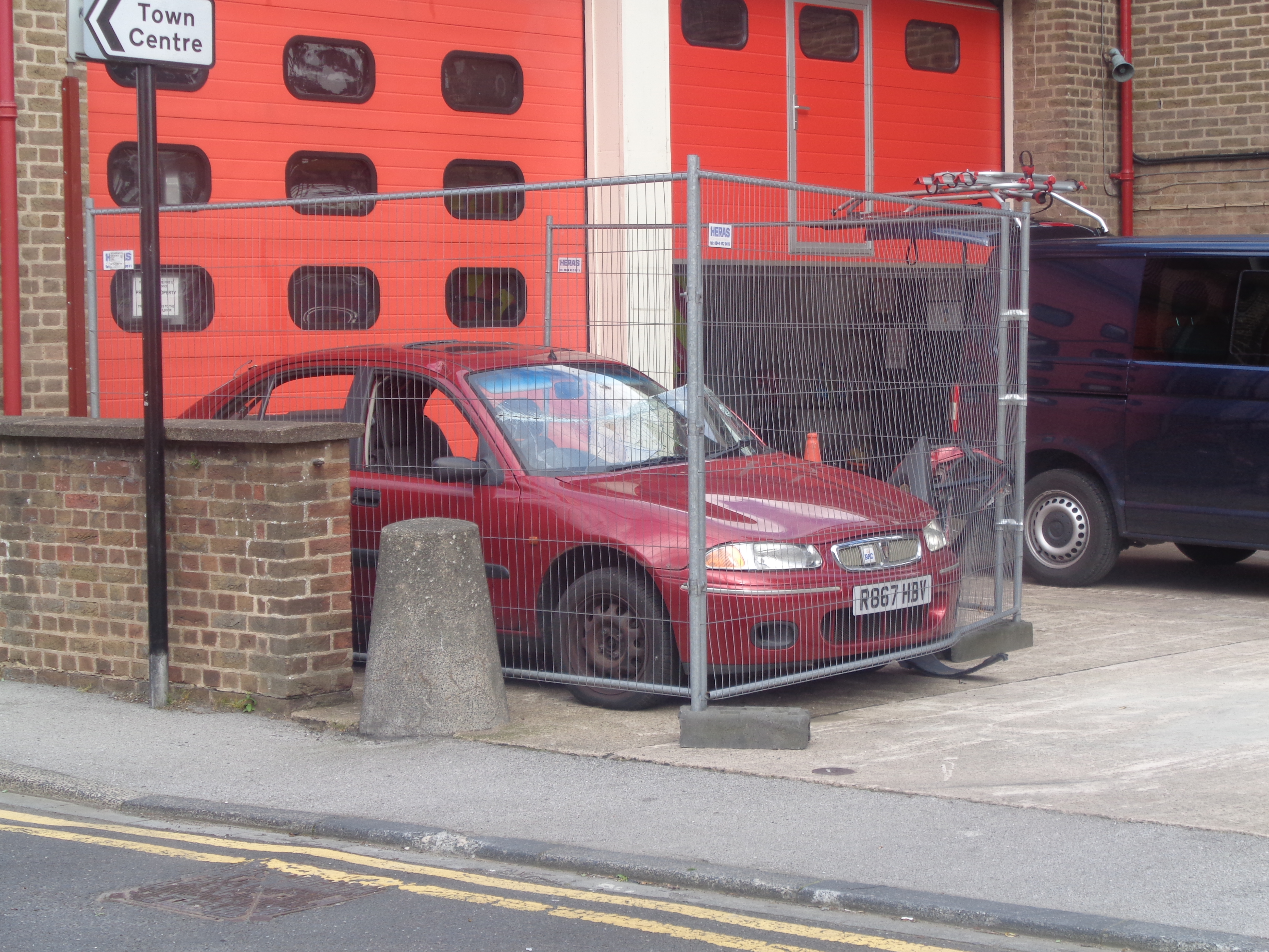 Rover 200 being used for training, Wetherby Fire Station seen from Greenfold Lane in Wetherby, West Yorkshire. Taken on the afternoon of Tuesday the 4th of August 2015.